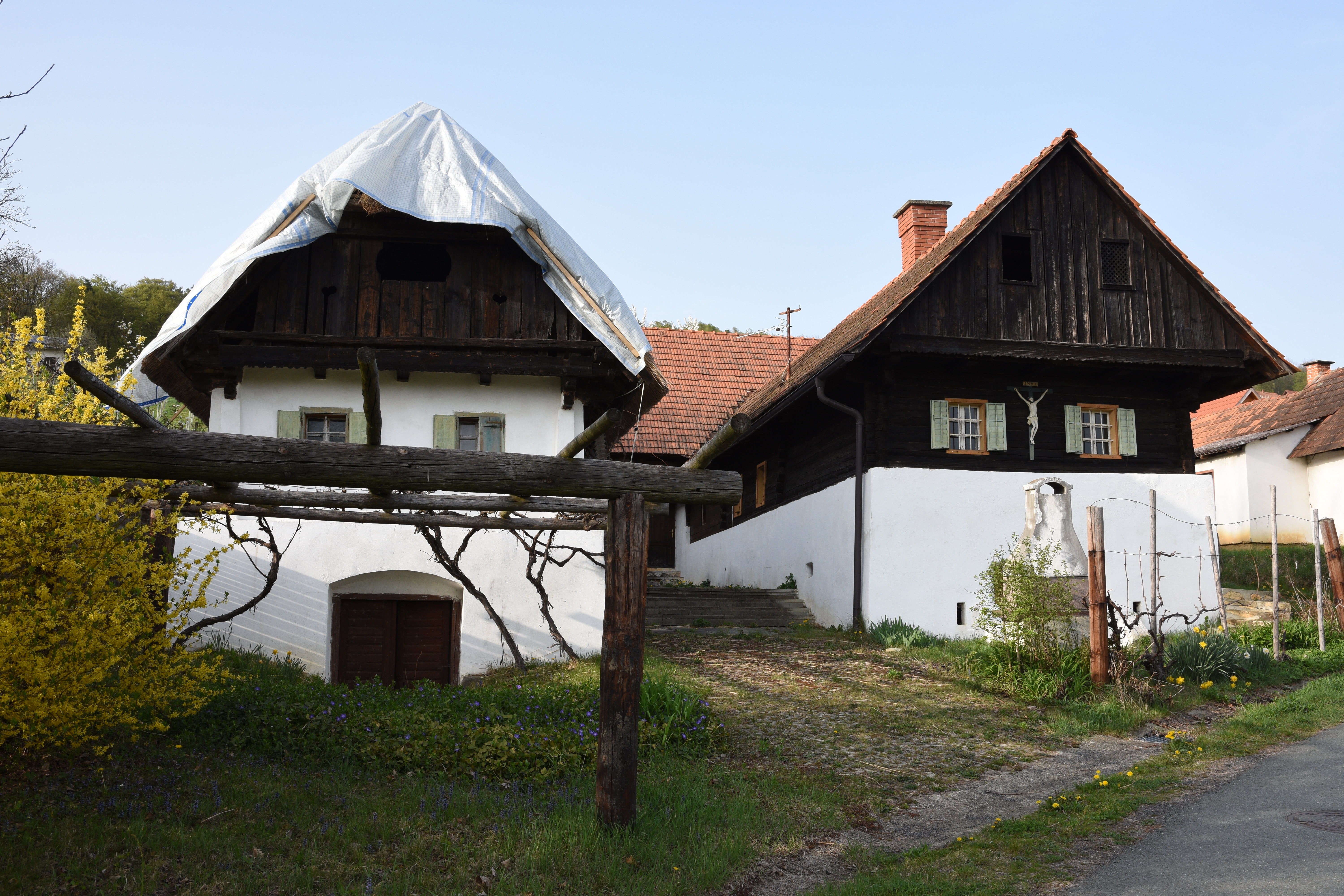 Winzerhaus Sulzbach Number 17 and 18